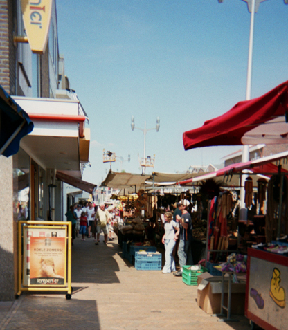 Princestraat, Katwijk, with a weekly tourists' market.